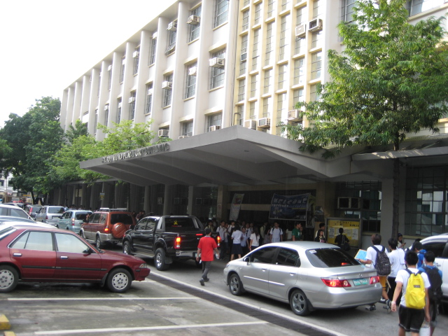 The St. Raymon Peñafort Building of the University of Santo Tomas which houses the College of Commerce and Business Administration and the Faculty of Arts and Letters of the said University.